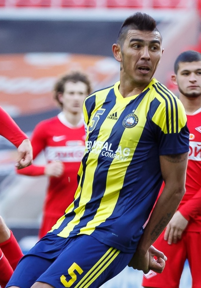 Anzur Ismailov with Pakhtakor Tashkent in a friendly game against FC Spartak Moscow.